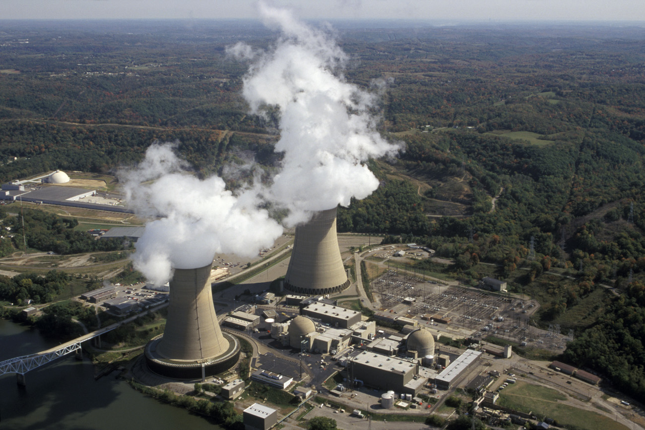 Picture of Beaver Valley Nuclear Power Plant